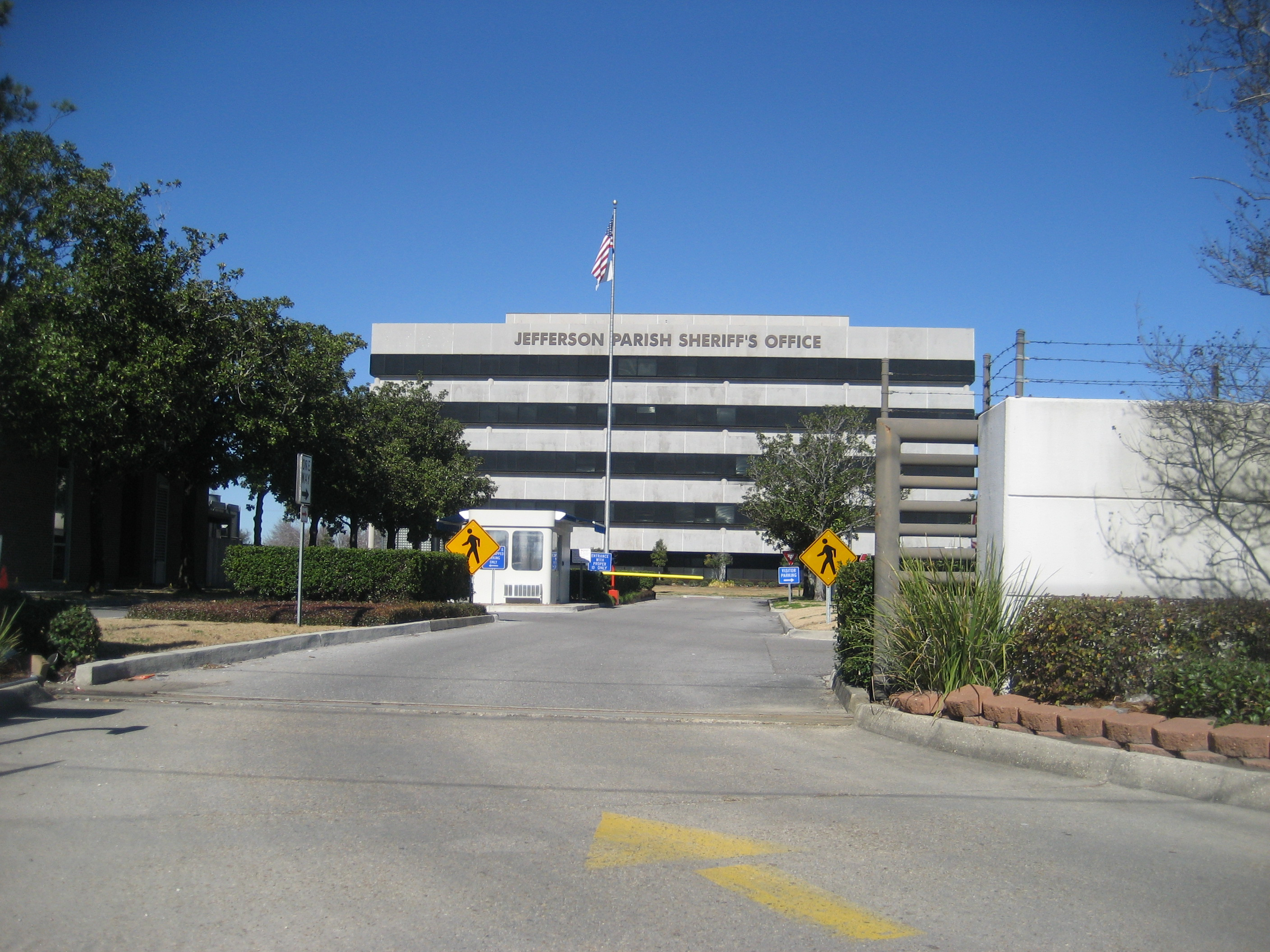 Harvey, Louisiana. Jefferson Parish Sheriff's Office building seen from the West Bank Expressway.